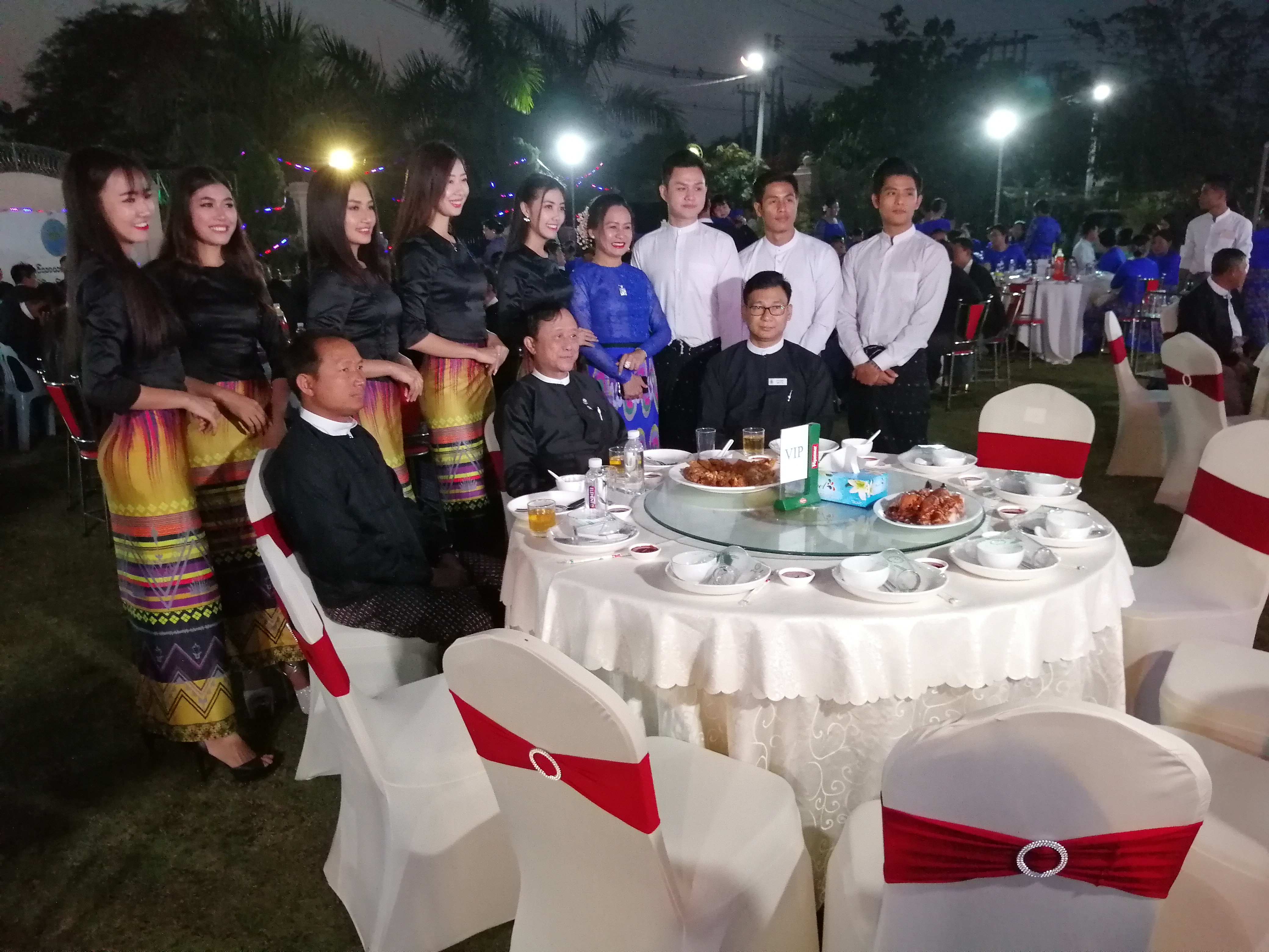 Ye Lwin, mayor of Mandalay, at a dinner မြန်မာဘာသာ: ညစာစားပွဲတစ်ခုတွင်​တွေ့ရ​သော မန္တ​လေးမြို့​တော်ဝန်ဦးရဲလွင်